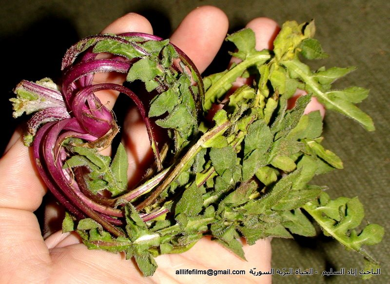 نباتات برية سورية تؤكل